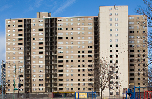 This photo of the last remaining building of the Stateway Gardens public housing project was taken on March 5, 2007, as crews were preparing to demolish the building. The view is from the south. The photograph was taken by David Schalliol for the Stateway Gardens article.